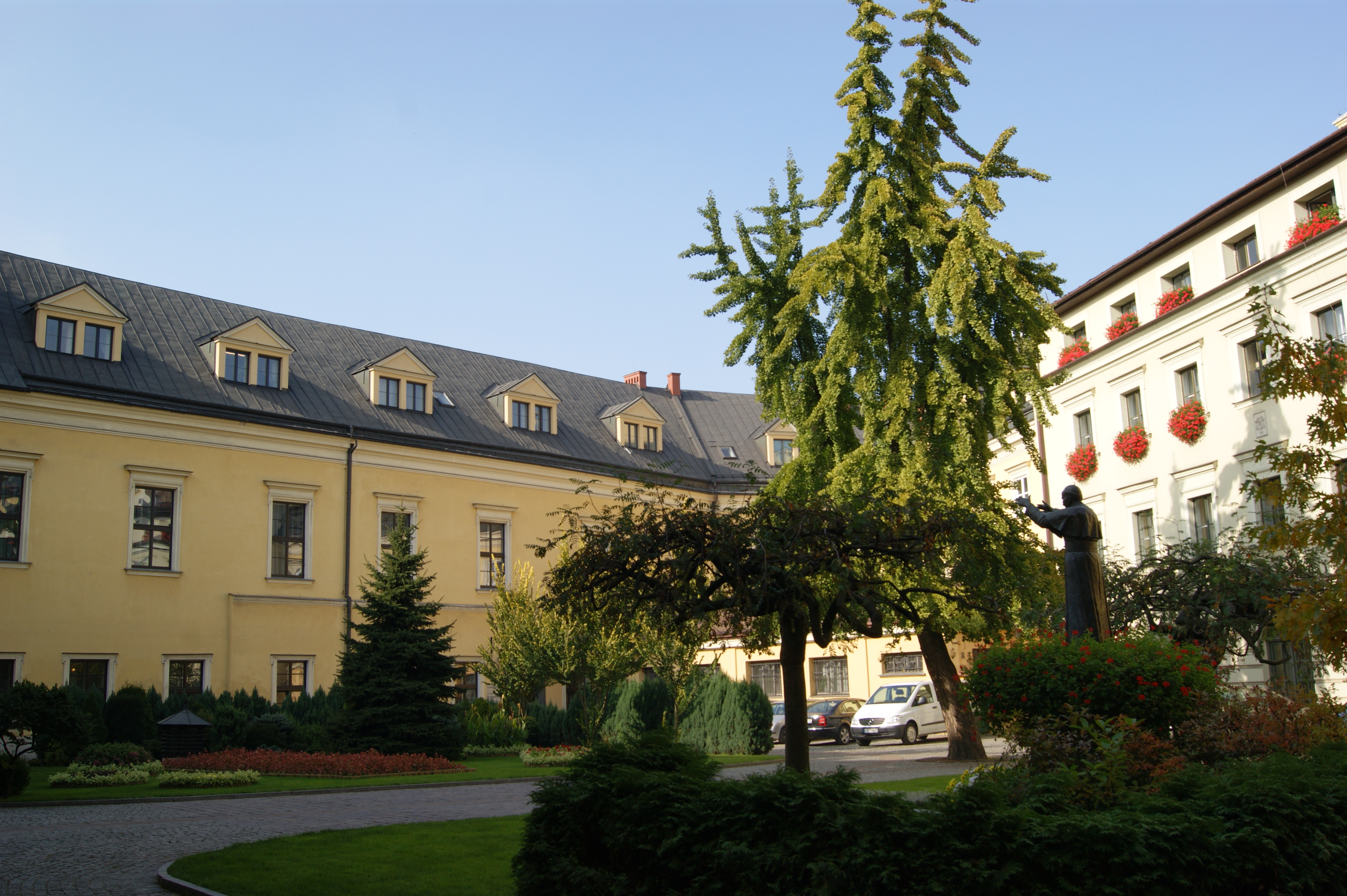 Krakow Archbishop's Palace courtyard, 3 Franciszkanska street,Old Town Krakow, Poland